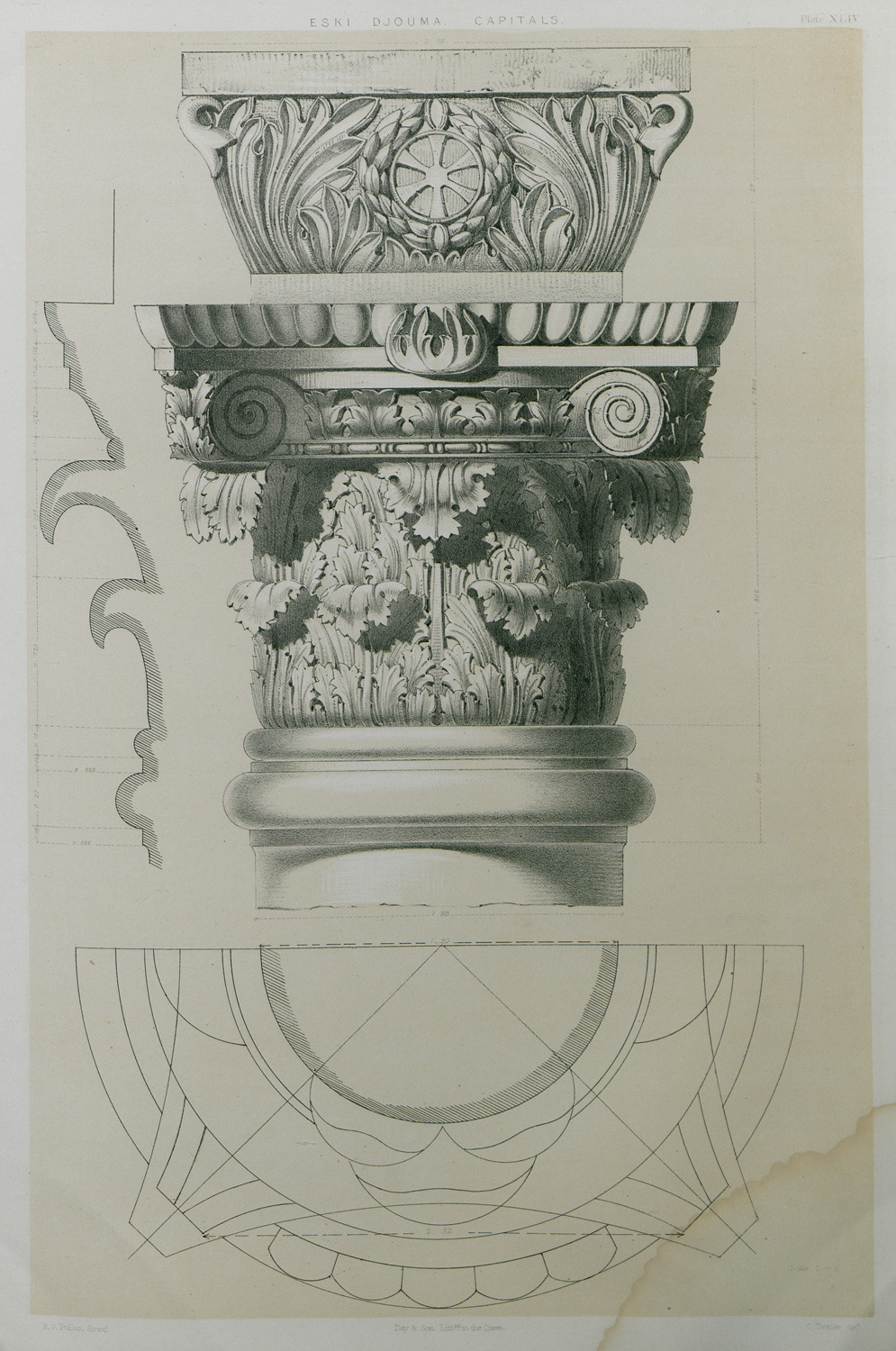 Félix Marie Charles Texier. Byzantine Arcitecture, illustrated by Examples of Edifices erected in the East during the earliest Ages of Christianity, R.Popplewell Pullan, London, Day & Son, 1864.